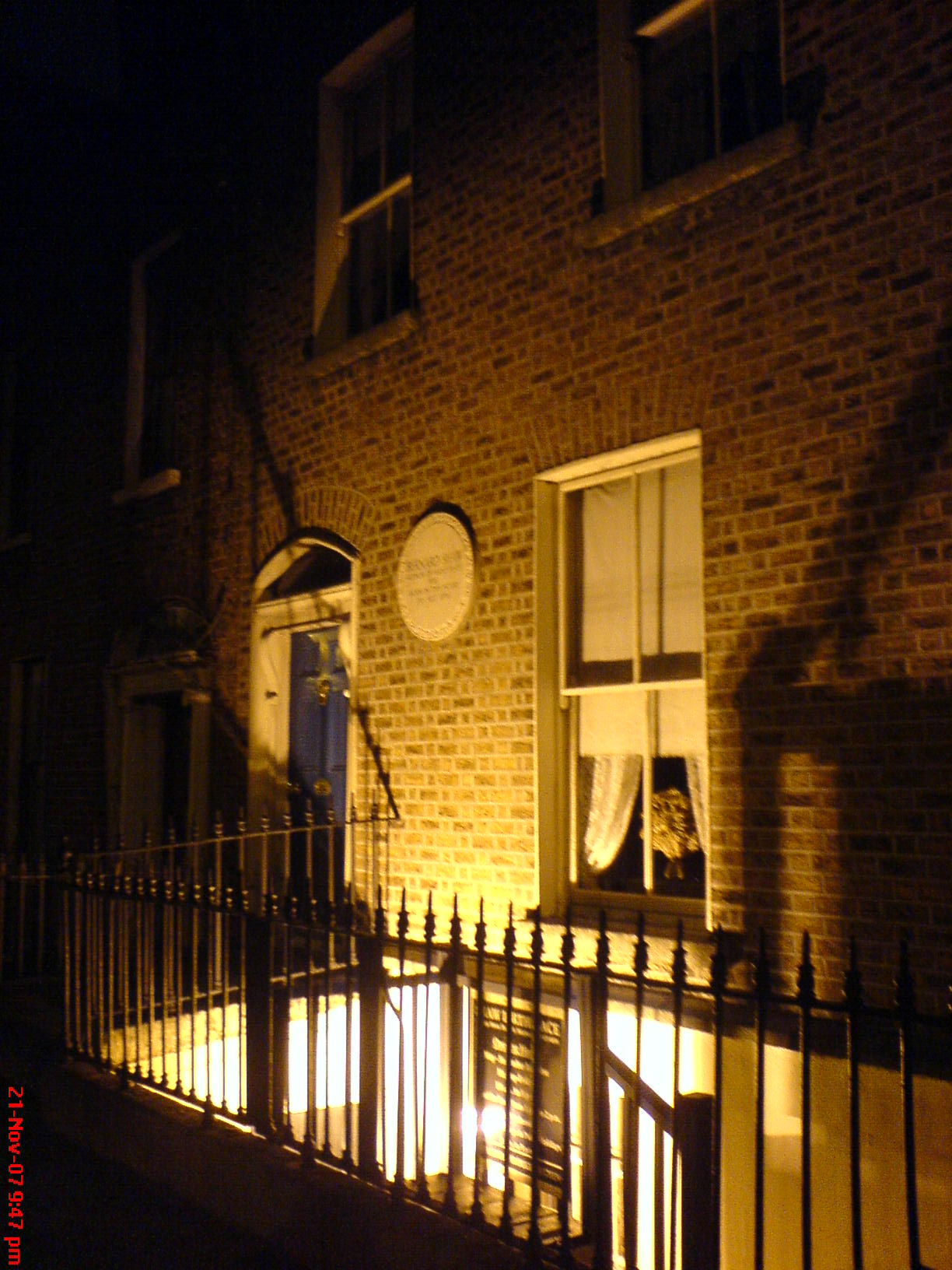 as title